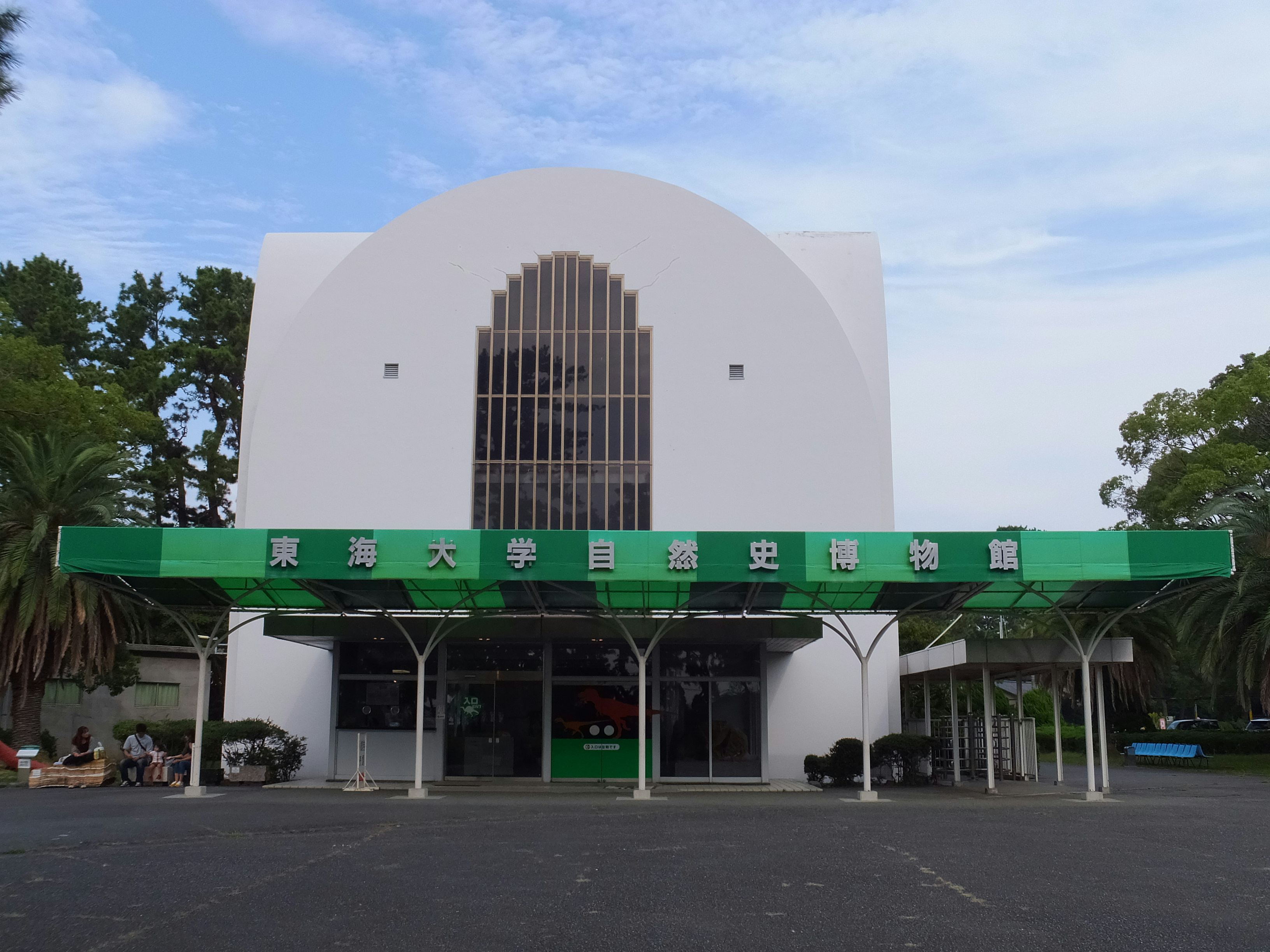 Tokai University, Tokai Univ. Natural History Museum.